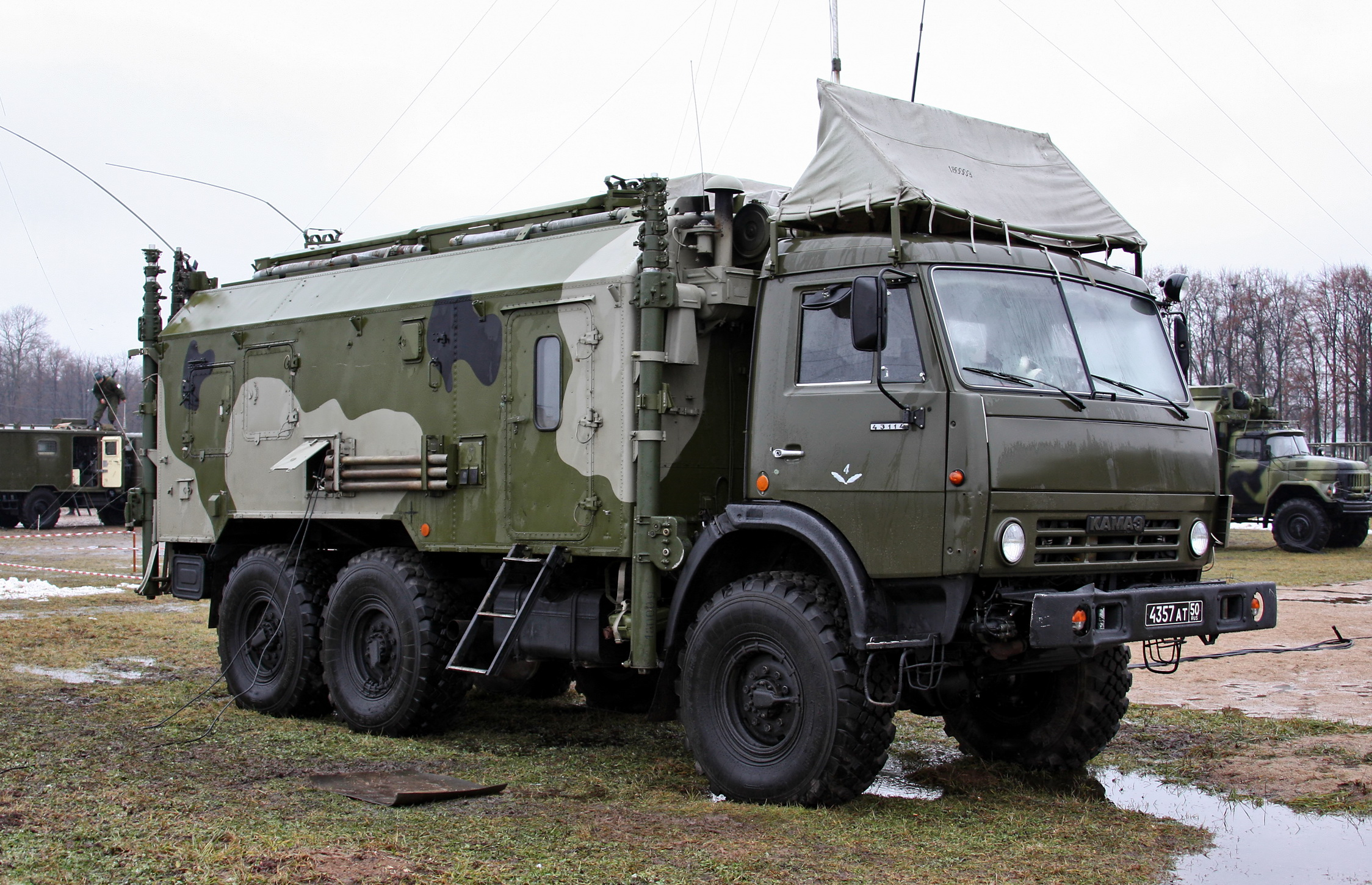 R-166 radiostation of 4th Guards Kantemirovskaya Tank Division